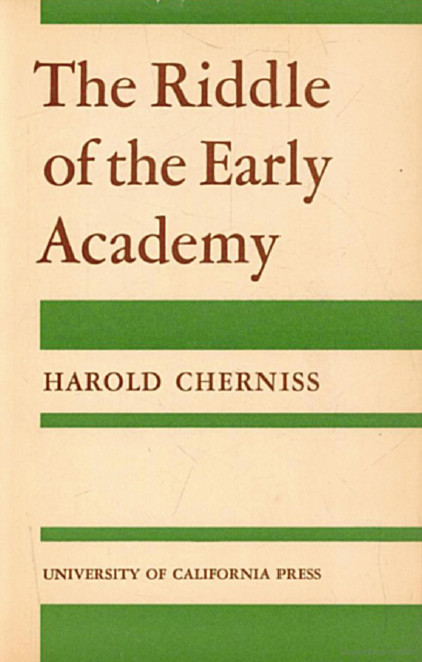 Harold Cherniss, Riddle of the Early Academy, Book Cover